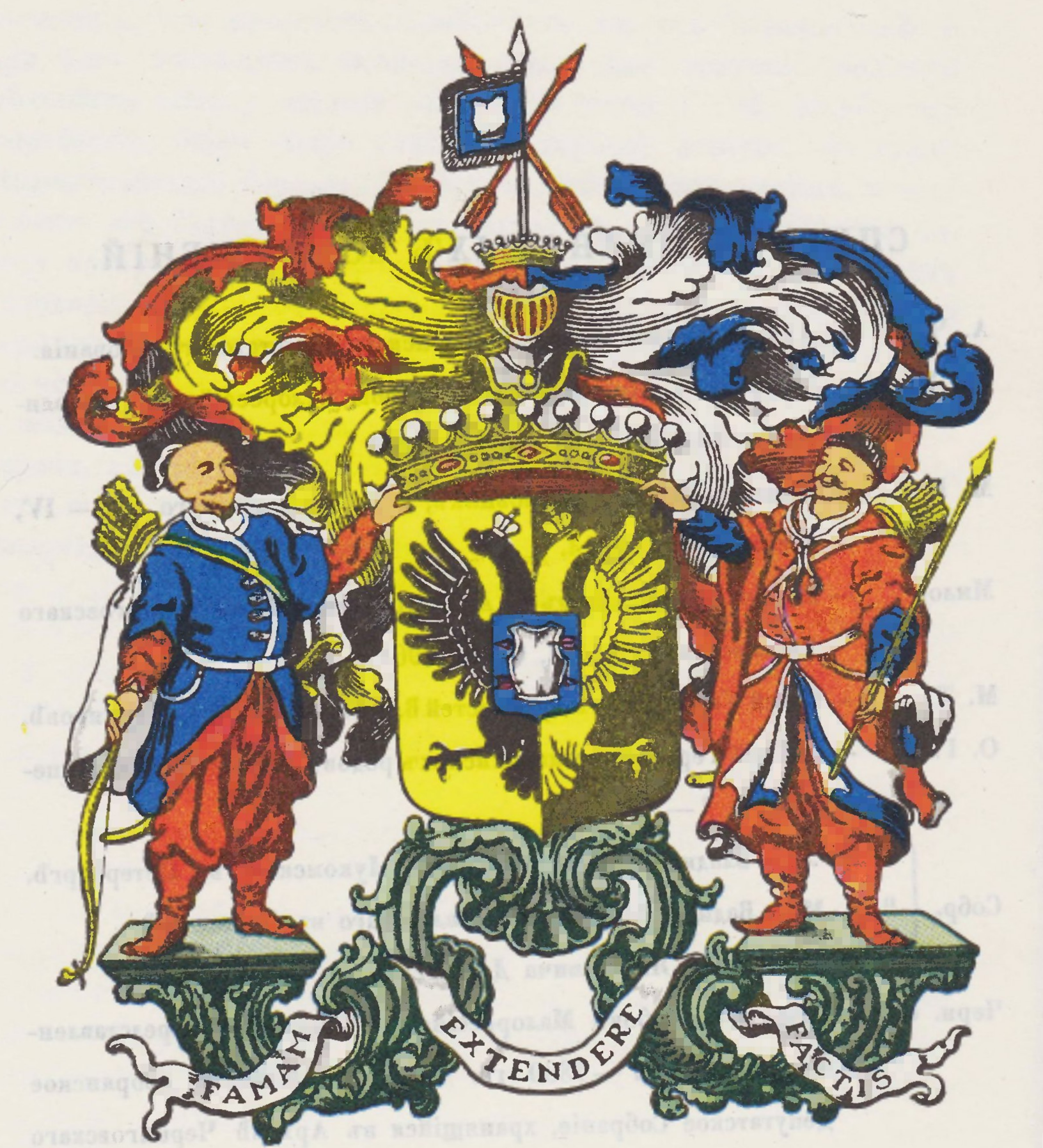 The Armorial of Little Russia. Coat of arms of Rozumovski family